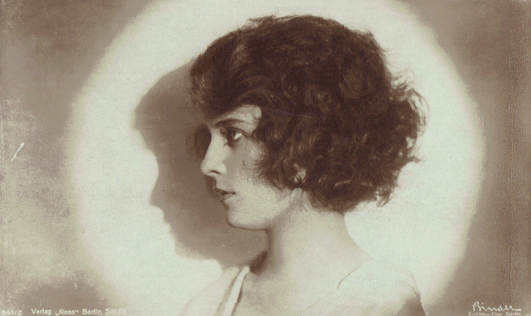 Actress Lilian Harvey, by Foto Binder